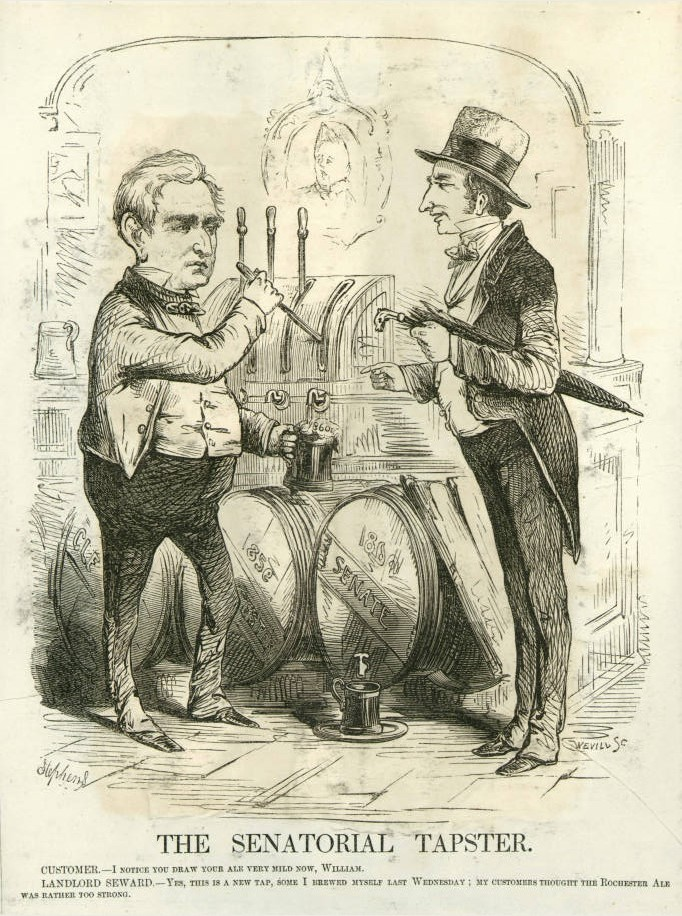 Political cartoon from Vanity Fair, March 10, 1860. William H. Seward, senator and contender for the Republican nomination for president (won by Abraham Lincoln) repositions himself as a moderate on slavery by brewing "mild beer" after his Rochester speech in which he said slavery would lead to a "irrepressible conflict. Caption: Customer -- I notice you draw your ale very mild now, William. Landlord Seward -- Yes, this is a new tap, some I brewed myself last Wednesday; my customers thought the Rochester ale was rather too strong.